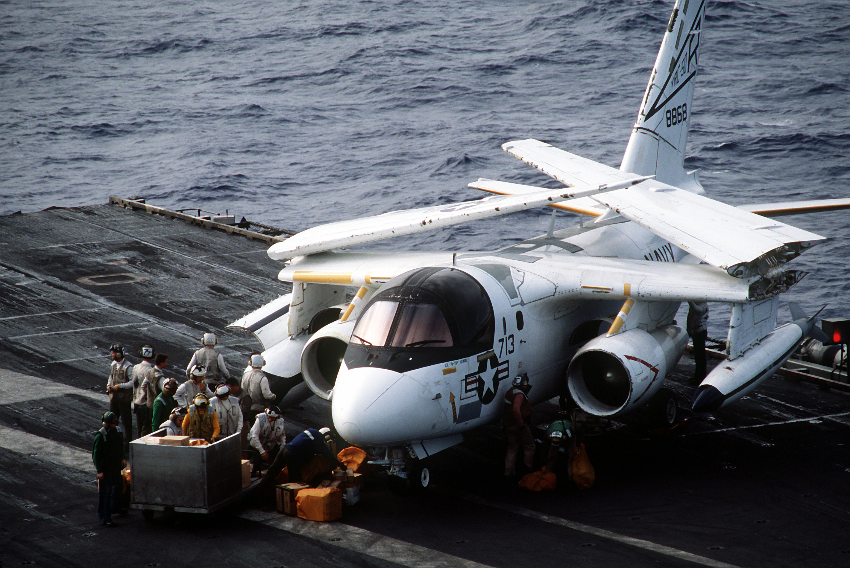 A U.S. Navy Lockheed US-3A Viking (BuNo 158868) of Fleet Logistic Support Squadron 50 "Foo Dogs" aboard the aircraft carrier USS Abraham Lincoln (CVN-72) with a carrier-onboard-delivery (COD) of mail.